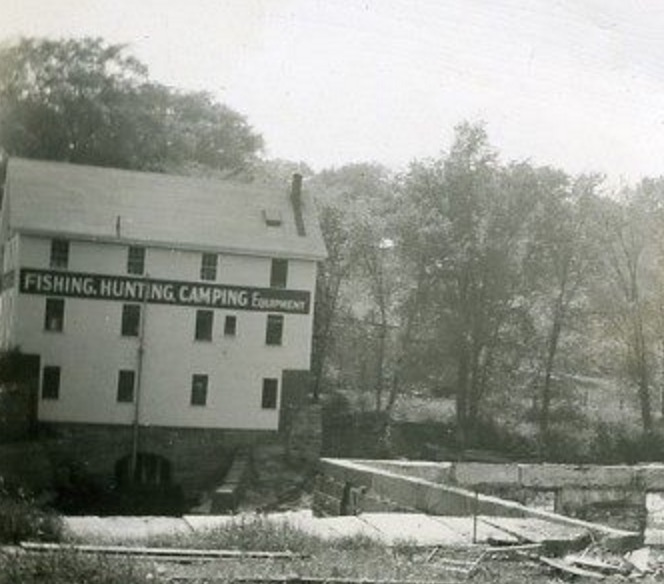 Lower Falls, viewed from what is now Grist Mill Park